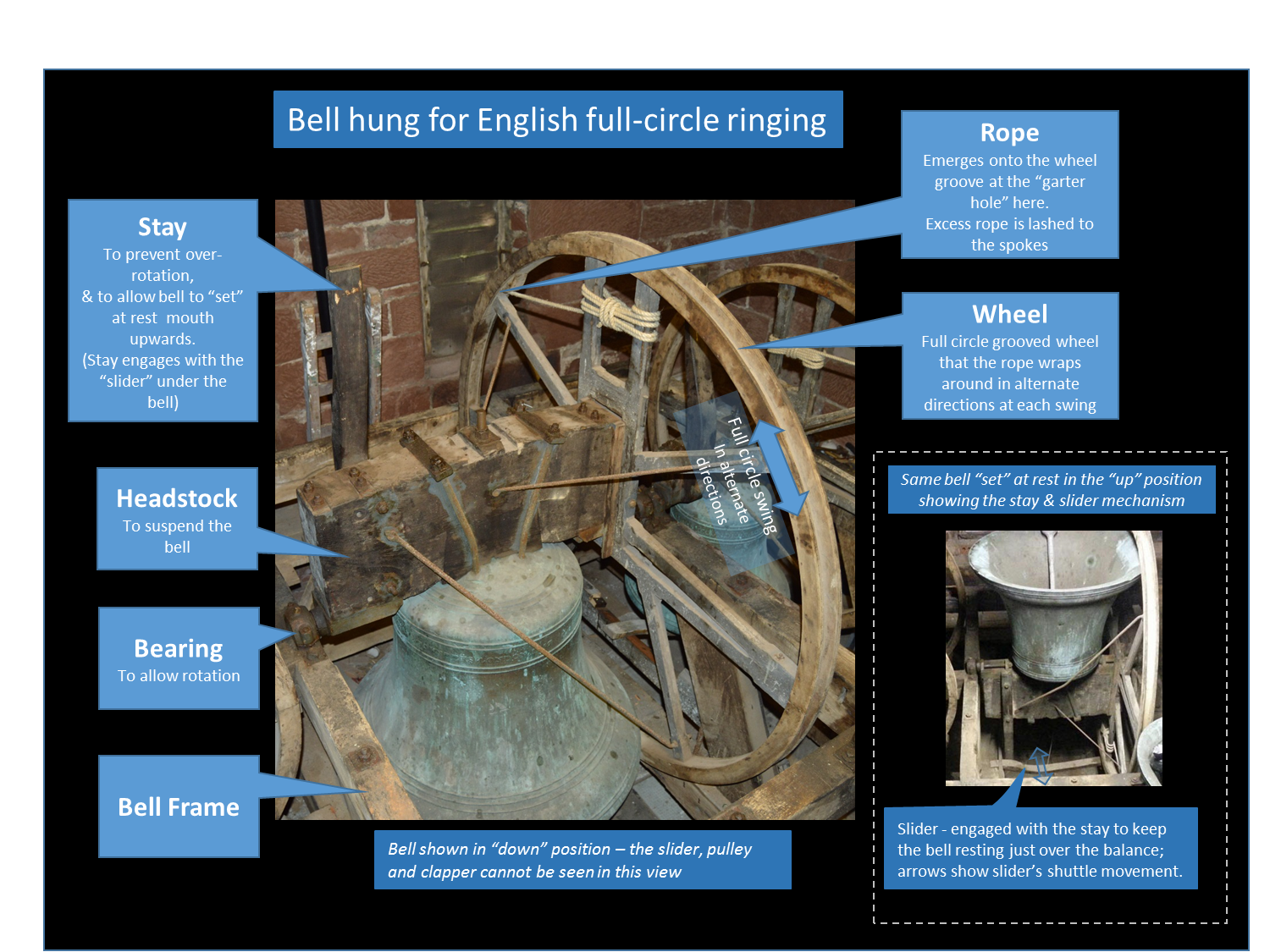 Labelled image of a bell hung for English full-circle ringing. Cast in 1857 at the Whitechapel bell foundry and installed in an oak frame at St Bees Priory, it is 13 hundredweights (imperial) or 660 kg (SI) in weight, and is the largest bell of the ring of 8 bells installed in 1858.